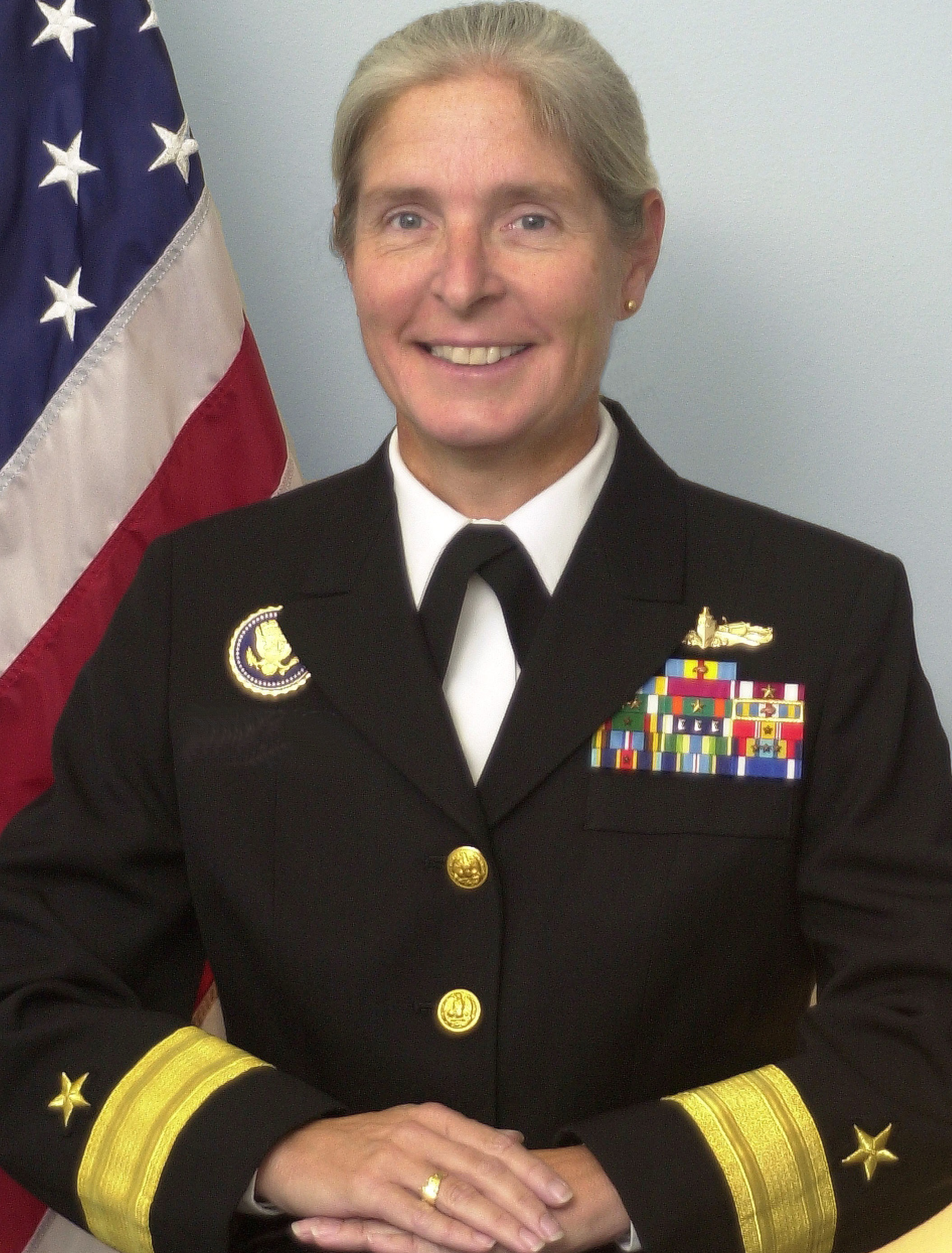 Rear Admiral (lh) Deborah Ann Loewer, commander, U. S. Navy Mine Warfare Command